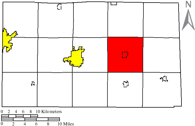 Made by the US Census and modified by myself